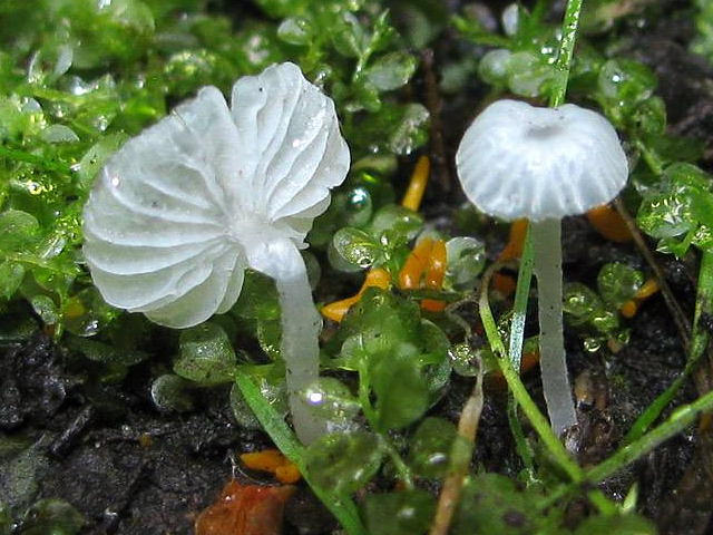 Delicatula integrella (Pers.) Fayod Location: Pokrovskoye-Streshnevo, Moscow, Russia For more information about this, see the observation page at Mushroom Observer.